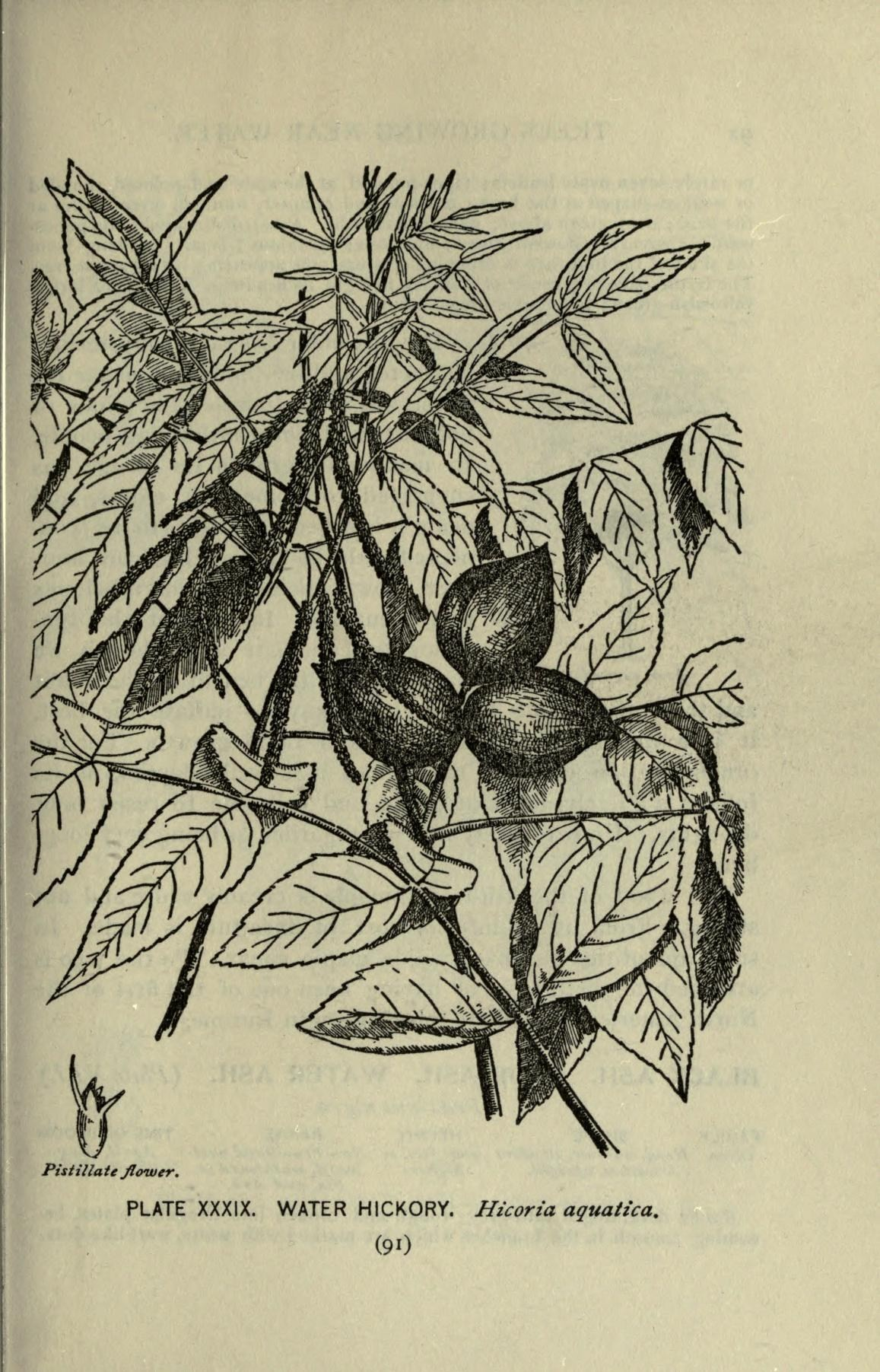 Pistillate flower. PLATE XXXIX. WATER HICKORY. Hicoria aquatica, (90